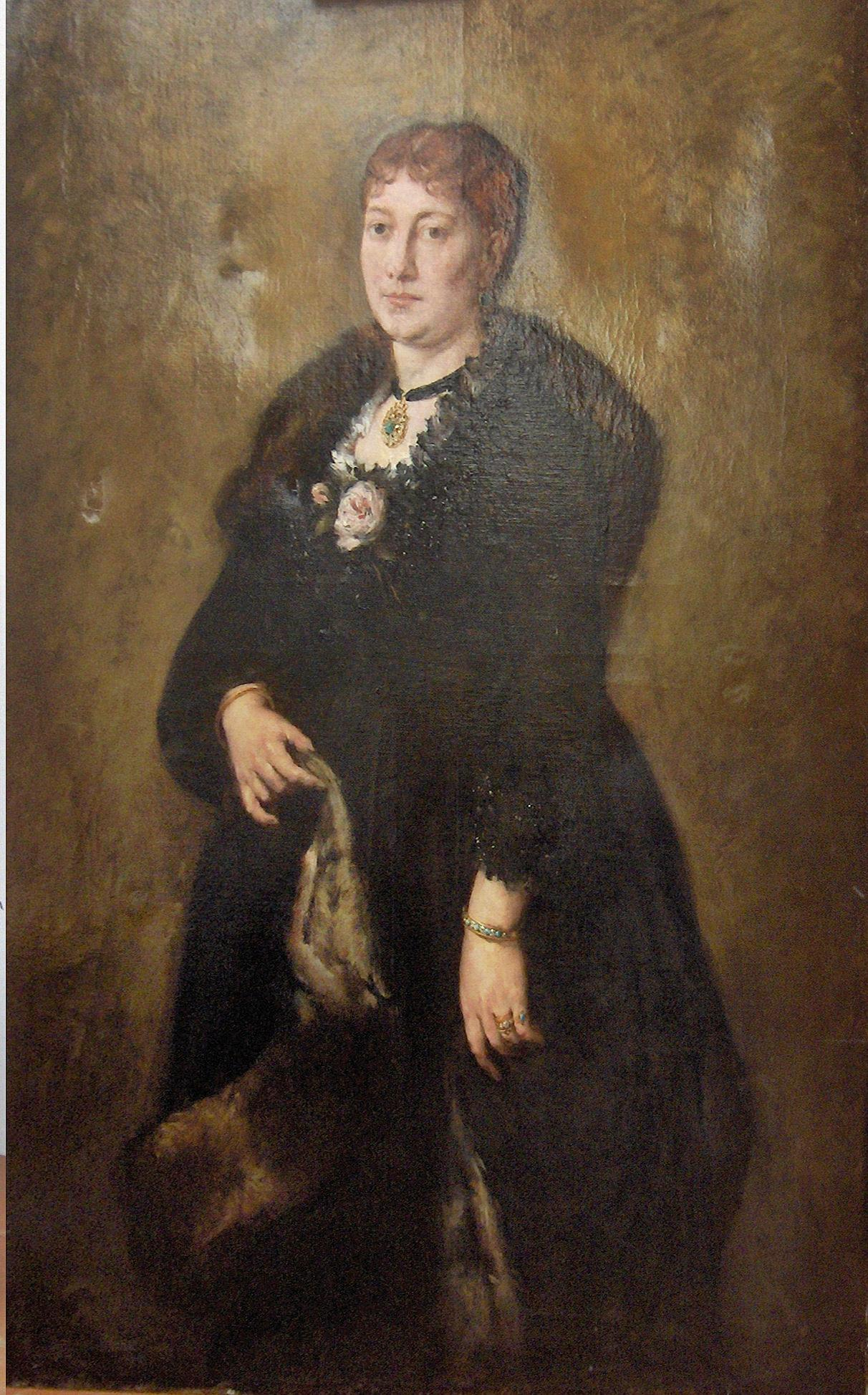 "Portrait of a lady' by Charles Pirmez, a Belgian painter from the second half of the 19th century: oil on canvas; signed and dated 1880